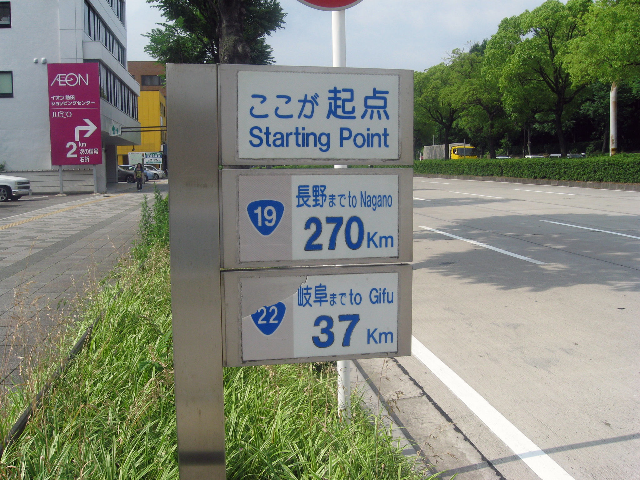 Starting point sign of Route 19 & 22 in Nagoya, Japan.